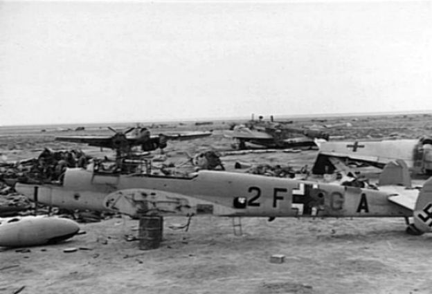 Wrecked German Messerschmitt Me 110 aircraft at Gambut, Libya. The aircraft in front had been assigned to 5./KG 28 (5th Squadron, 28th Bomb Wing).